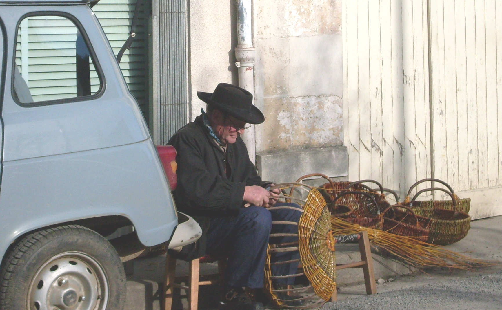 Basket maker in France 2009